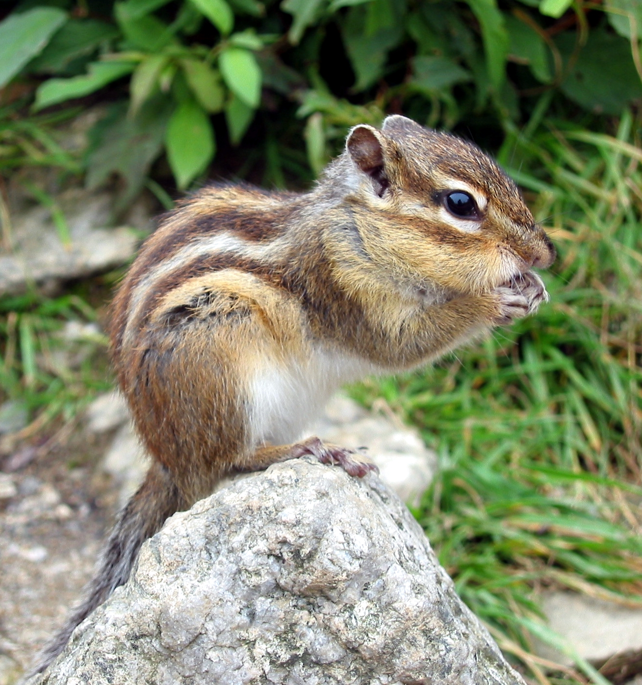 Siberian Chipmunk photographed on the mountain, South Korea (Seoraksan)